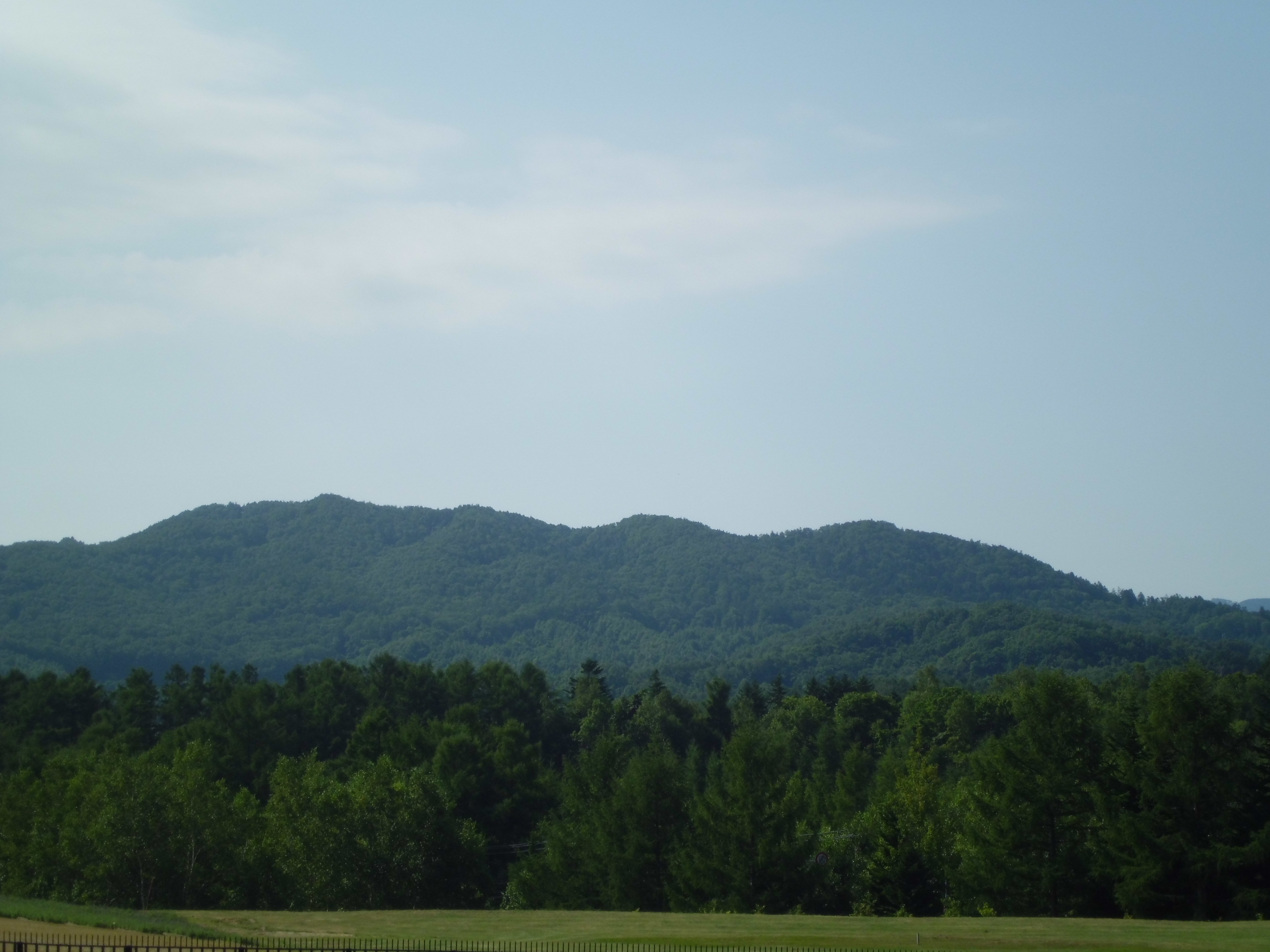 Mount Yagyu of Takino, Minami-ku, Sapporo.